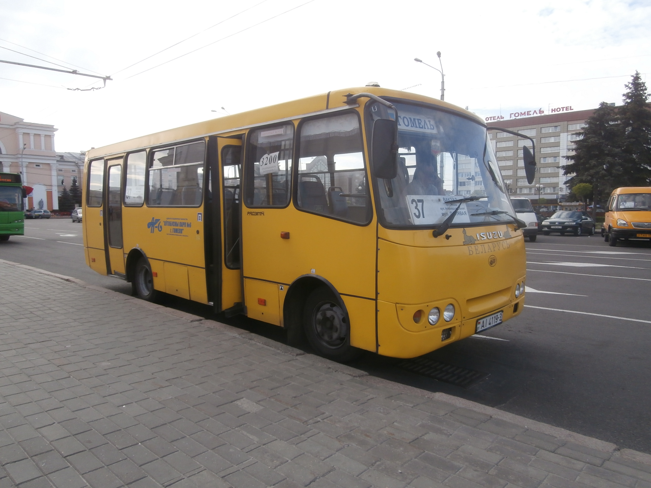 Isuzu Bogdan A092 Radzimich, licence plate BY АІ 4119-3, at Privokzalnaya Pl. in Gomel 7 May 2014 (ОТЕЛЬ ГОМЕЛЬ HOTEL in the background)